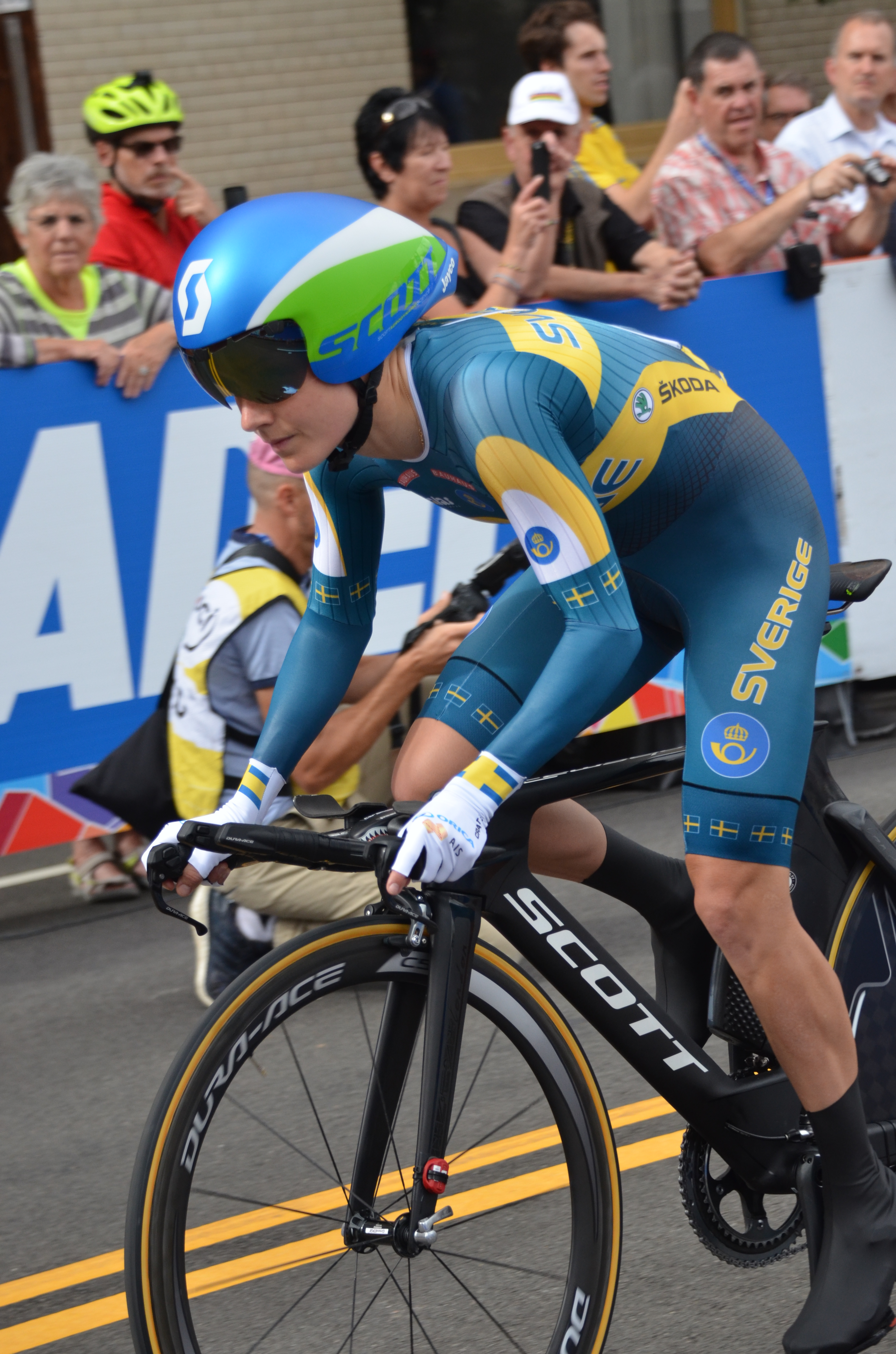 Emma Johansson of Sweden at the Women's time trial of the 2015 UCI Road World Championships, Richmond, Virginia.